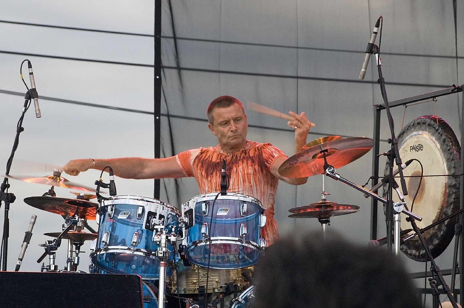 Carl Palmer at Asia concert at Norwalk, CT Oyster Festival